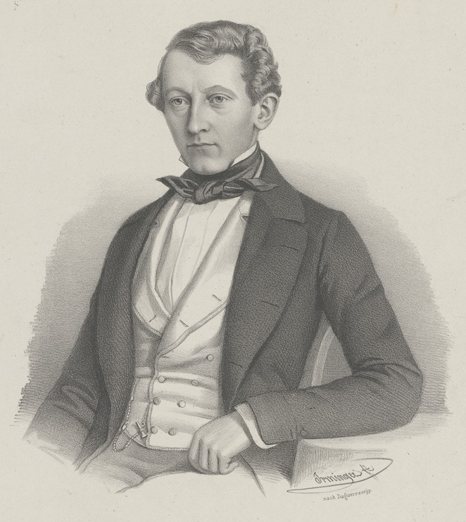 Johann Conrad Werdmüller (1819–1892), Swiss draftsman and engraver.